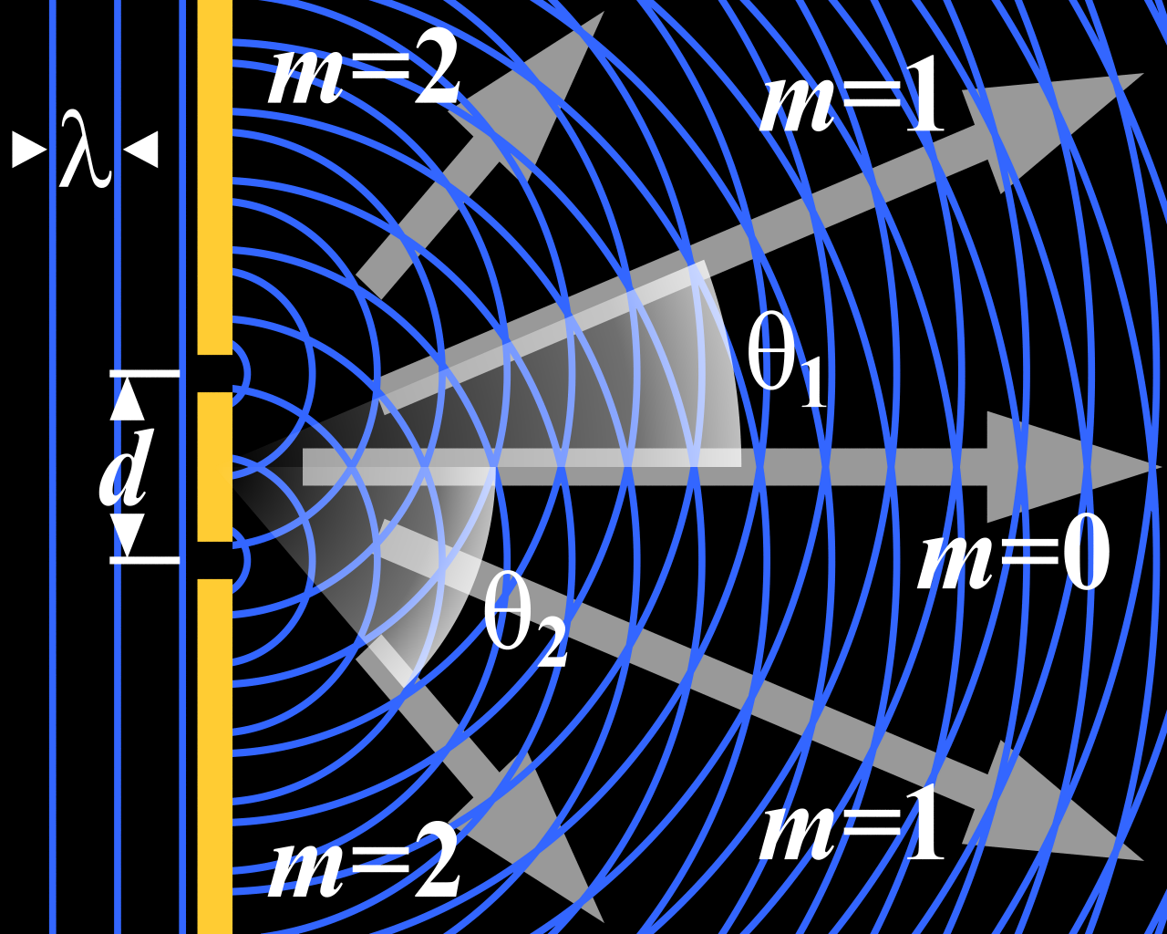 This is a drawing explaining two-slit diffraction: Planar wavefronts with wavelength λ (straight, vertical blue lines in the left-hand side of the image) arrives from the left at a barrier (thick yellow line) which have two slits or holes in it, at a distance d from each other. On the right-hand side of the barrier, the circular wavefronts that "leak" through the slits interfere with one another. This causes the light to scatter so that in certain directions, called orders (gray arrows labeled m0, m1, and m2), the light "concentrates" in beams while little or no light is emitted in the directions in between these orders. This image was rendered using the Persistence Of Vision Raytracer (POV-Ray for short) and the image description below. Note that to render this image, your POV-Ray installation needs to have access to the TrueType™ fonts timesbi.ttf (Times New Roman, bold & italic), timesbd.ttf (Times New Roman, bold), and symbols.ttf (various symbols, including greek letters), in order to render the white letters and numbers shown in the image.